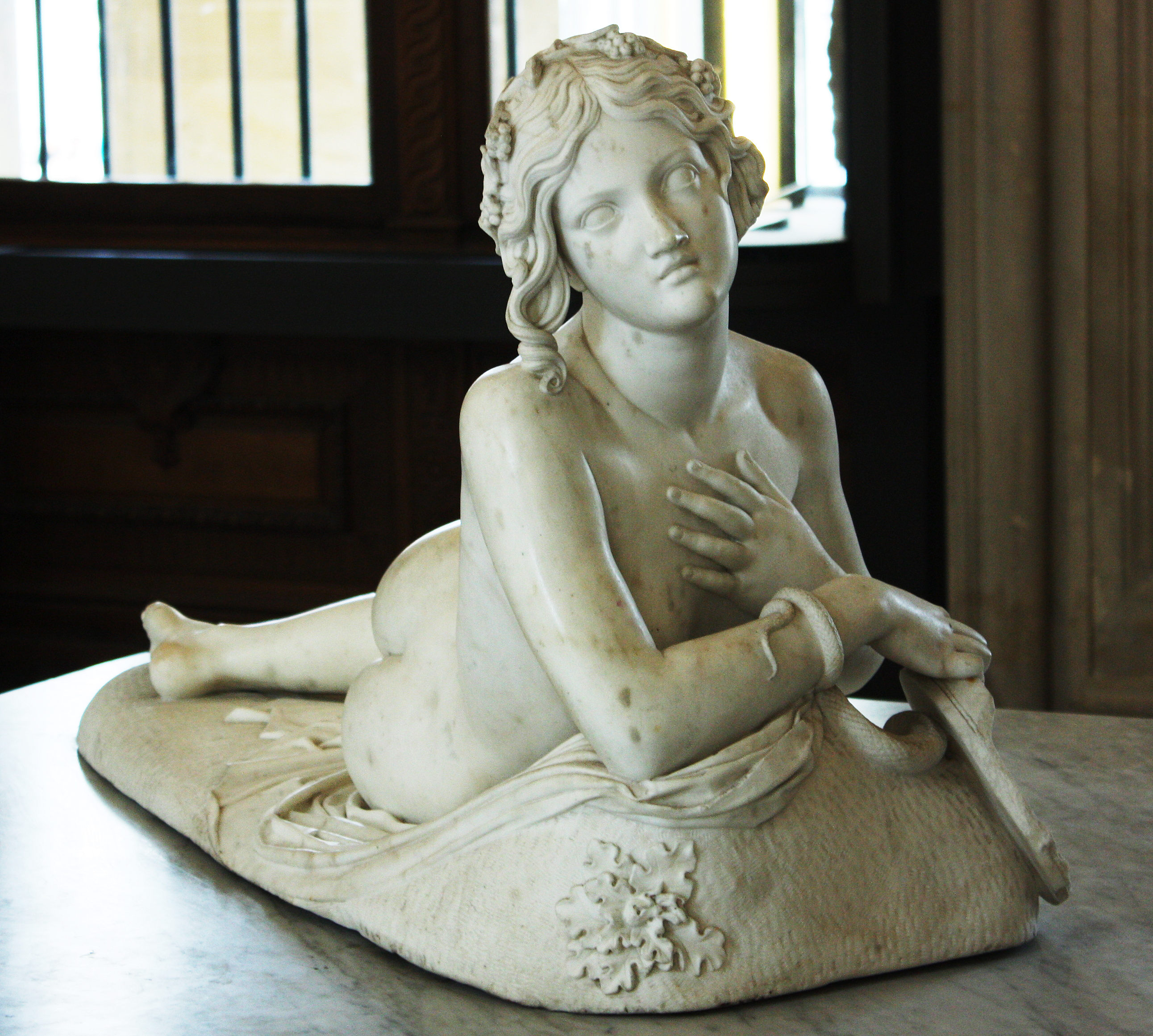 Dircé. Marble, Reduced version of the marble, done in 1824-1834 for the duke of Devonshire.